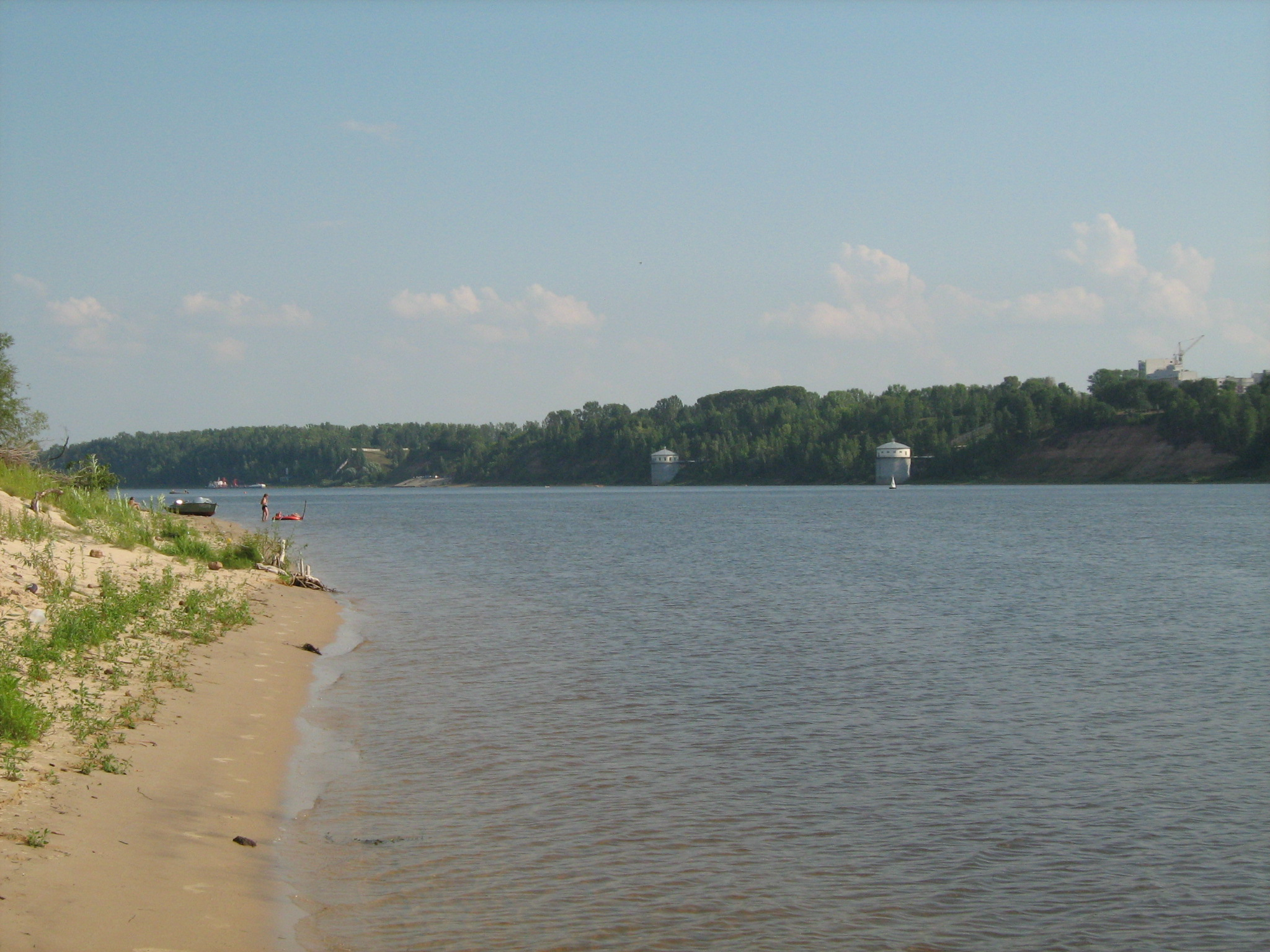 A bit upstream from the Kstovo beach. The two round water intake towers, for the city water supply system, can be seen across the river.